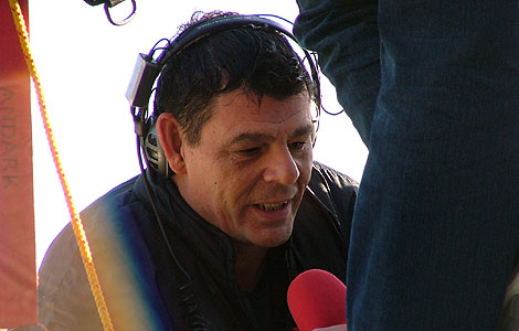 Released into public domain